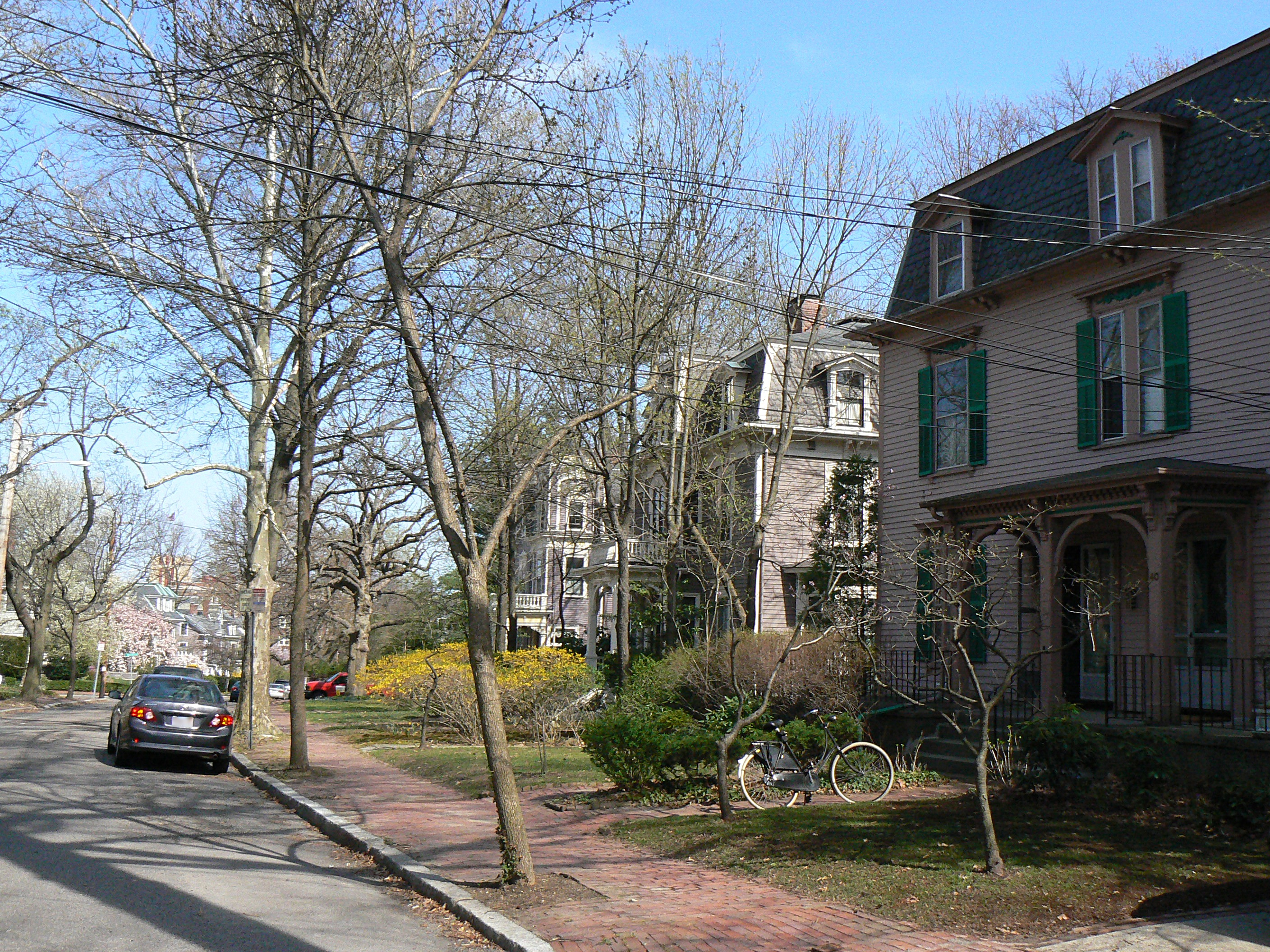 A photograph of Arlington Street in the Avon Hill Historic District of Cambridge, Massachusetts.